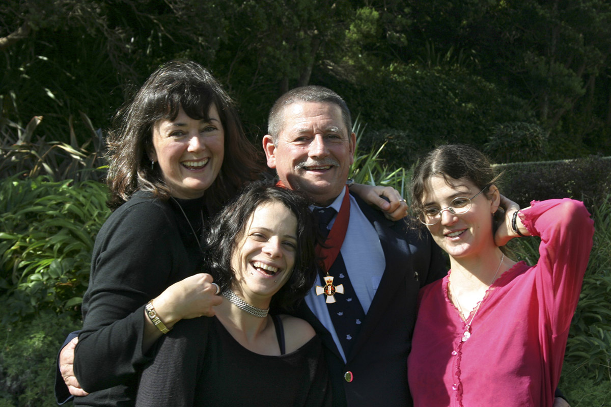 Foss Leach with his three daughters Janey, Penny and Katie, at his investiture as Companion of the New Zealand Order of Merit, CNZM, December 2004